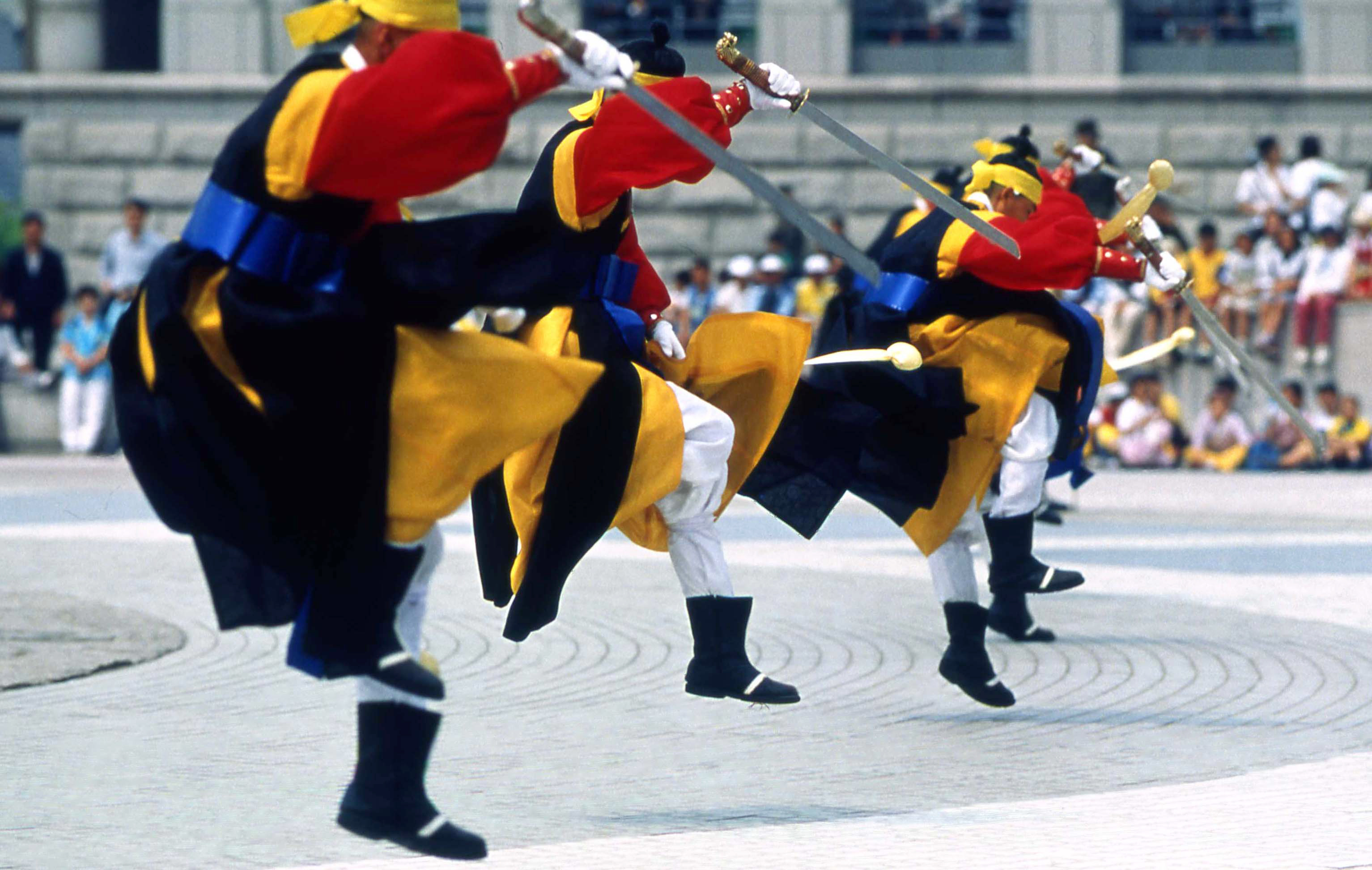 Geommu is performed with special costume, dance motions, and music.